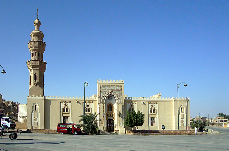 King Faruk or Sidi Suleiman mosque, town of Siwa, Siwa depression, Egypt